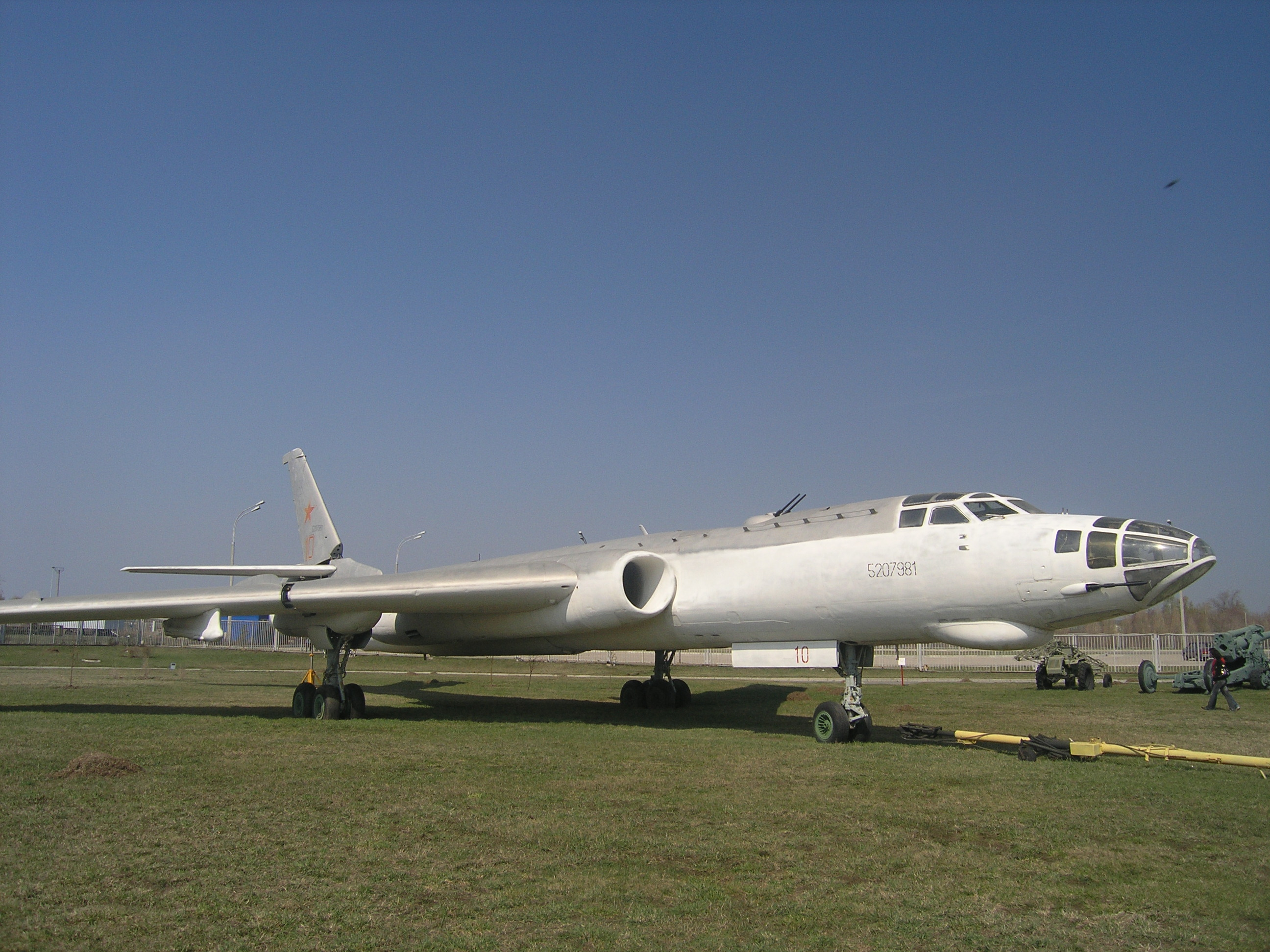 Tu-16, technical museum, Togliatti, Russia